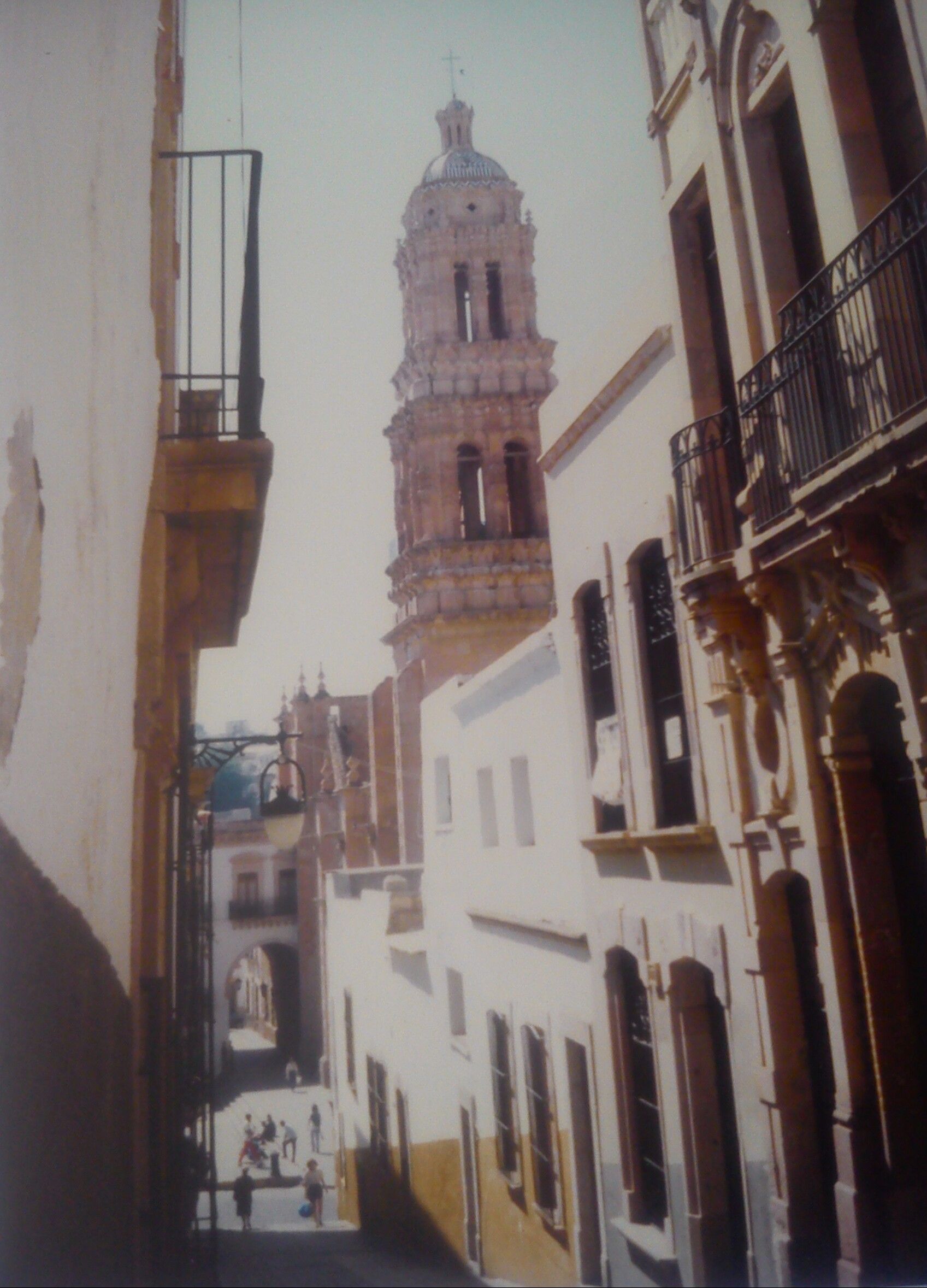 Downtown bystreet in the city of Zacatecas